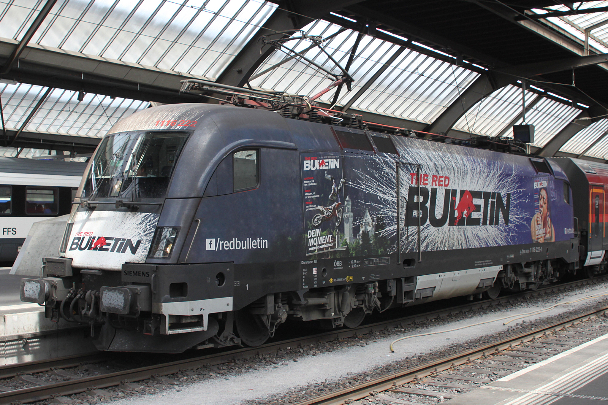 ÖBB 1116 222 at Zürich HB train station.